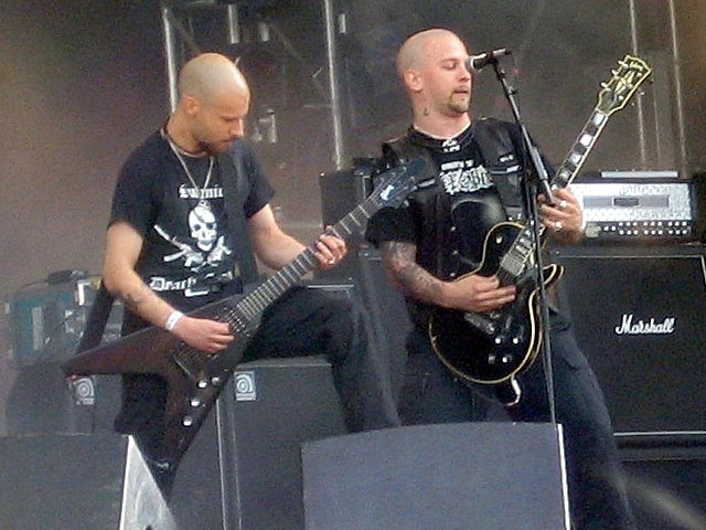 Dissection at Wacken 2005